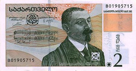 2 lari